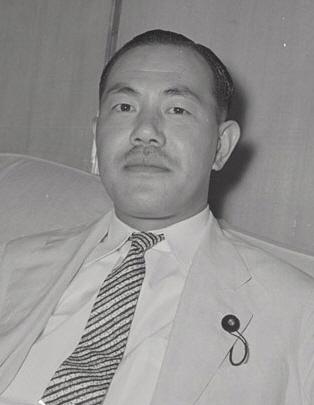 Image of Prime Minister Kakuei Tanaka in 1954.